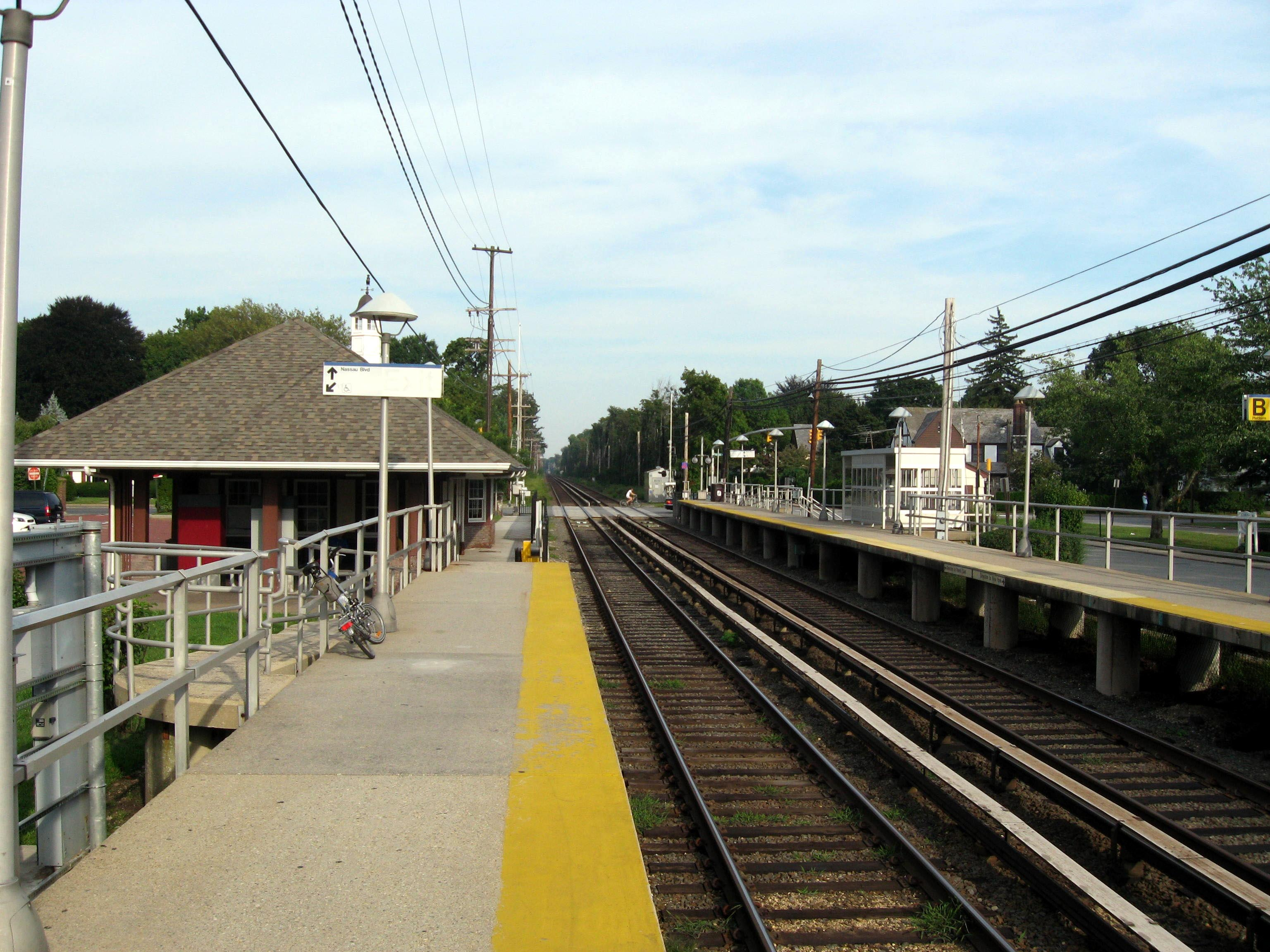 Looking east in Nassau Boulevard (LIRR station) on a partly cloudy afternoon